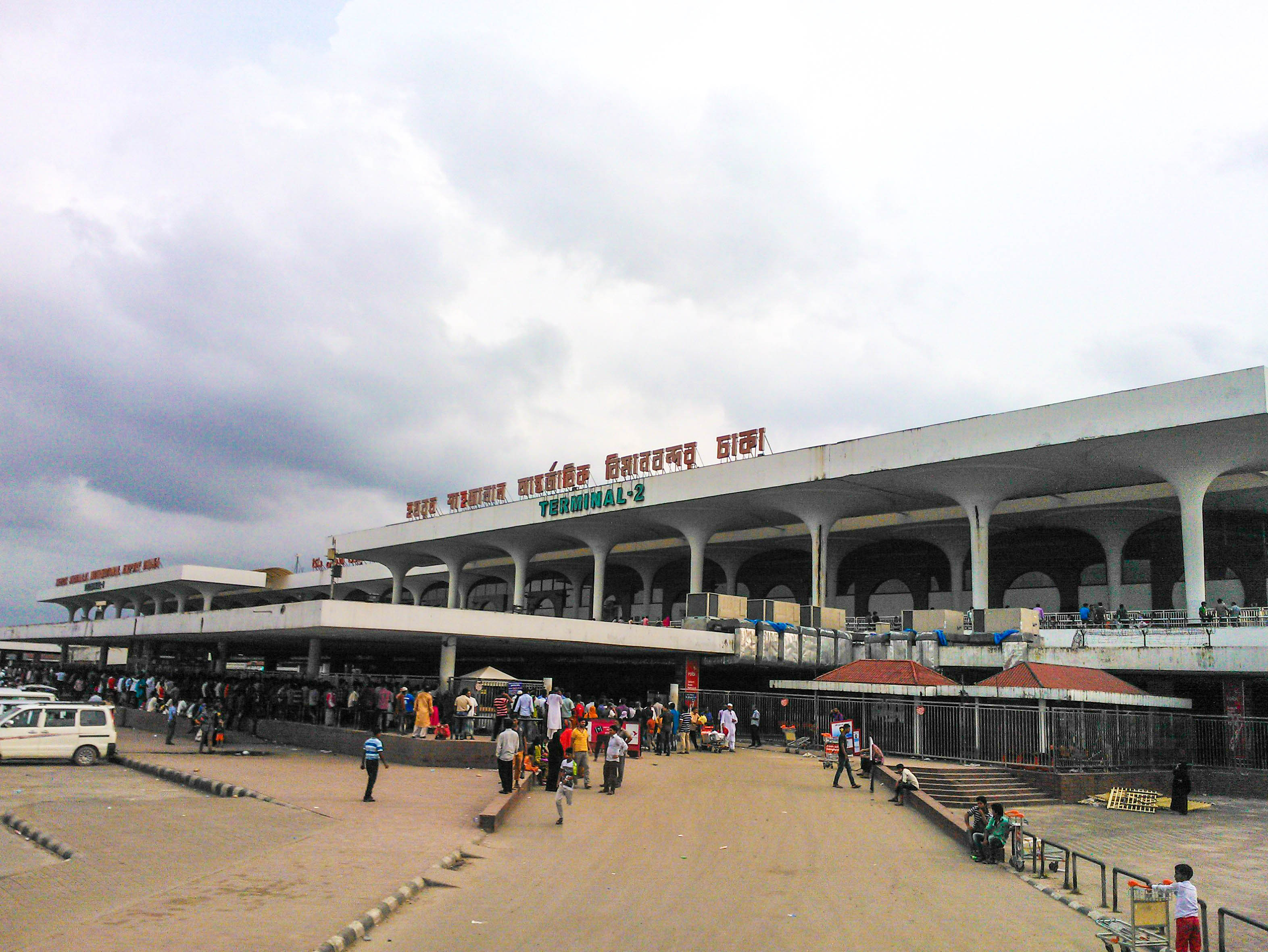 Shahjalal International Airport, Dhaka.